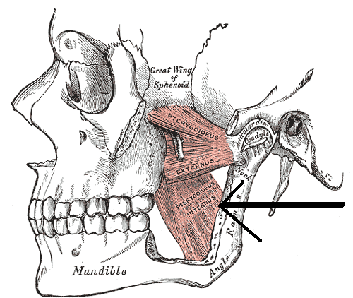 This is an anatomy image (from grays anatomy) with an arrow indicating the Medial pterygoid muscle